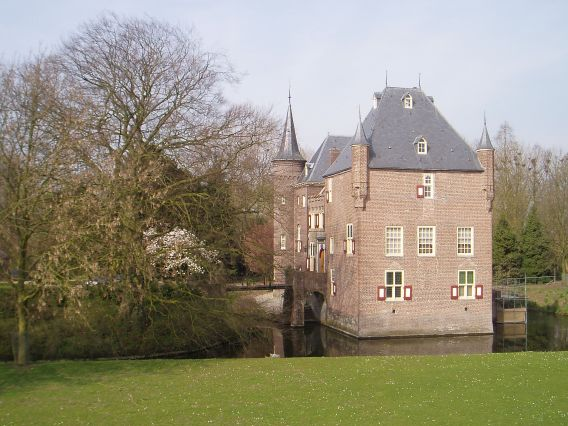 Van Malsen Castle in Well (Gld)